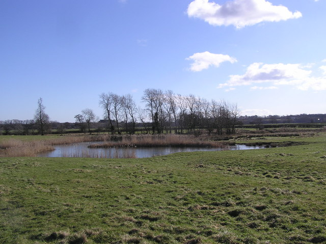 Hell's Kettle's Croft Road, near Darlington.